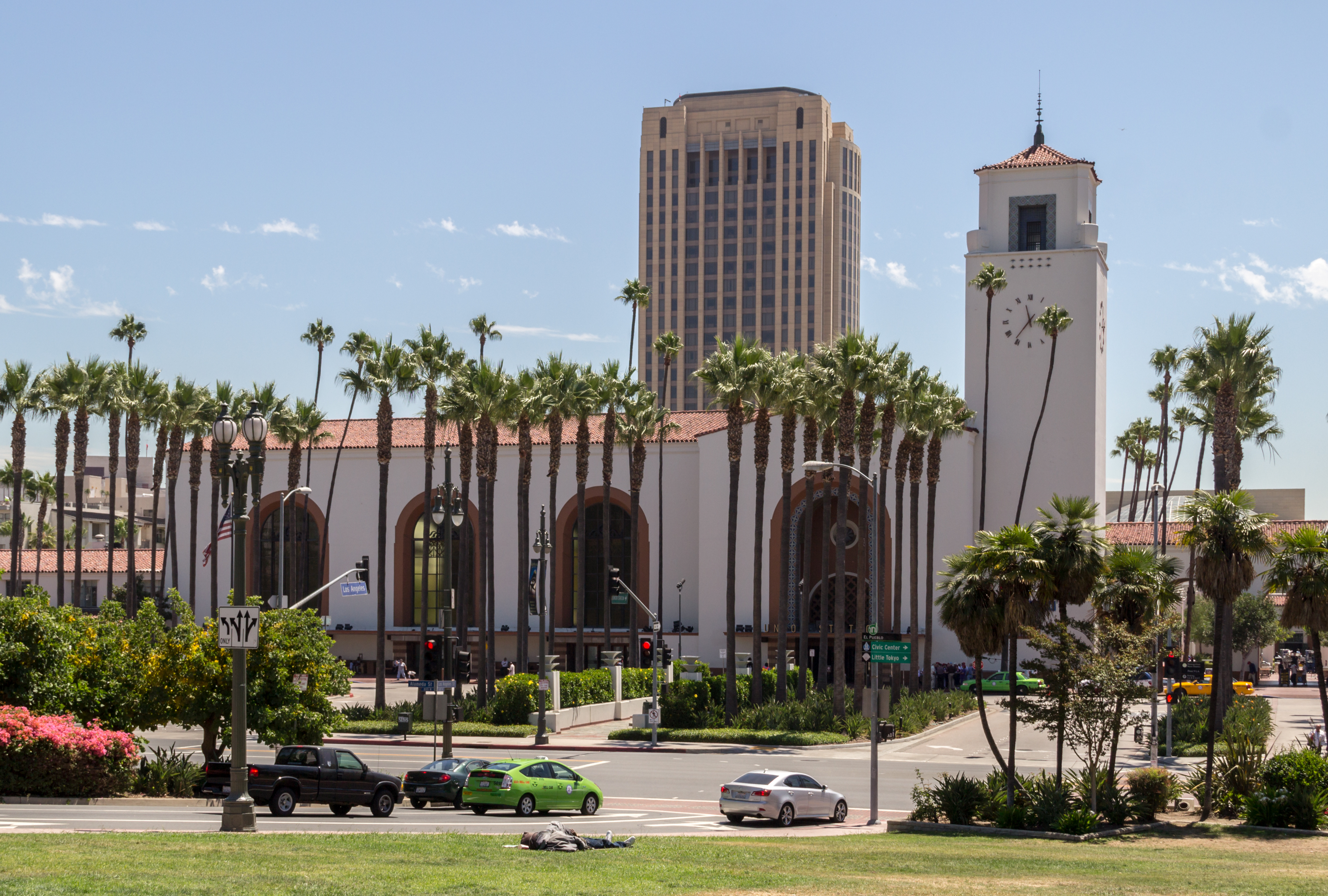 Union Station (1939), Los Angeles, California, USA